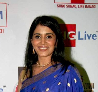 Sonali Kulkarni at the Marathi music awards